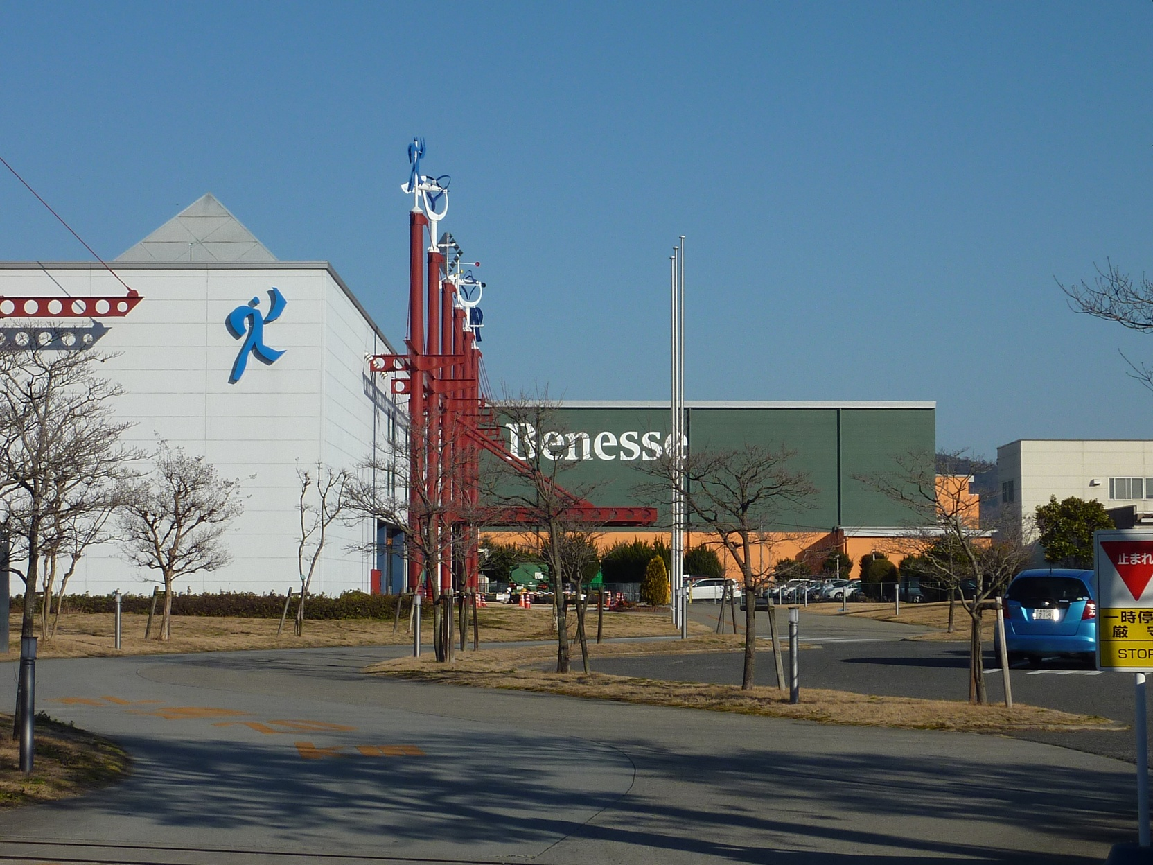 Benesse Logistics Center (Setouchi City, Okayama, Japan)